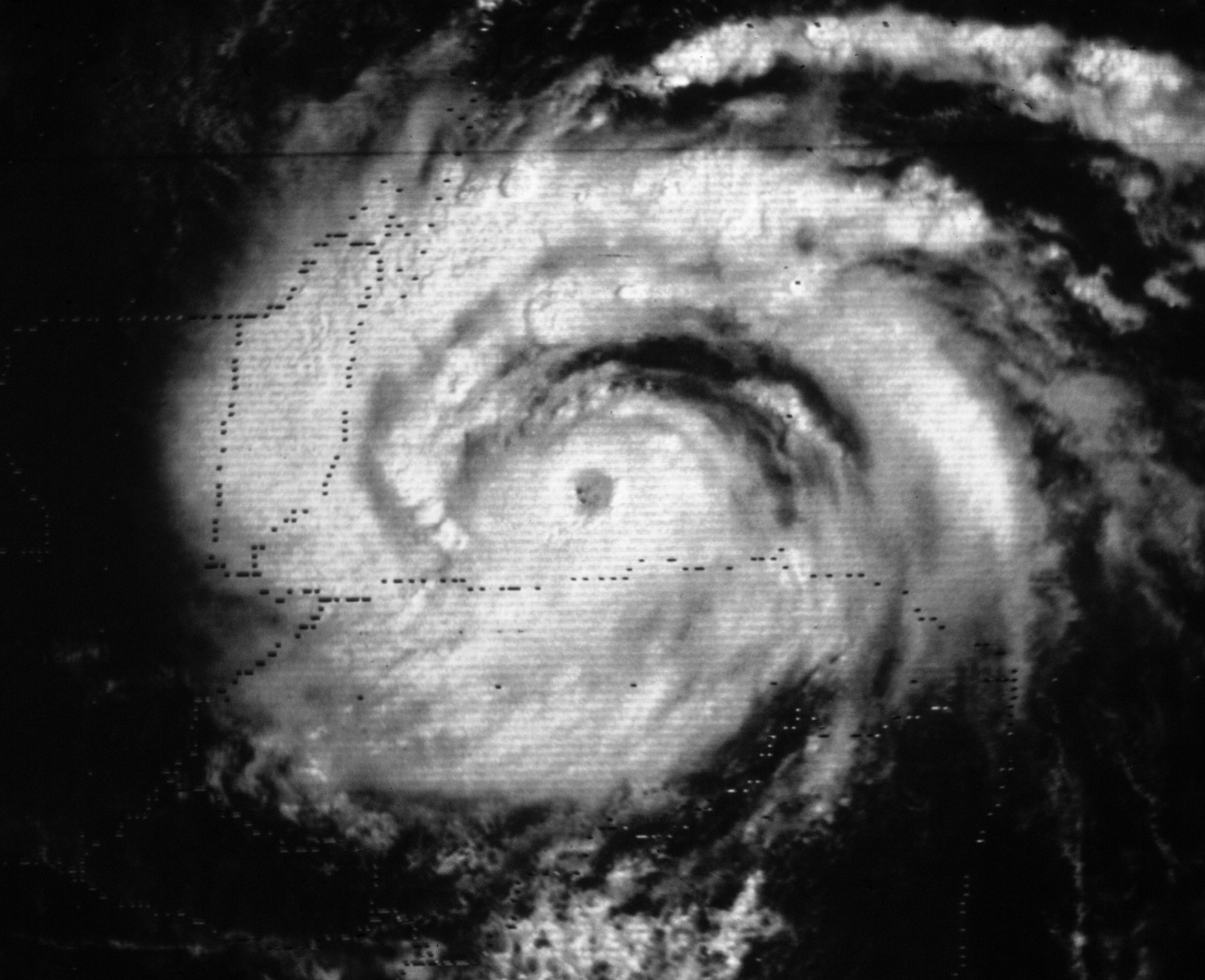 Summary From here, linked from NOAA Historic NWS Collection 1978's Hurricane Greta in the Gulf of Honduras